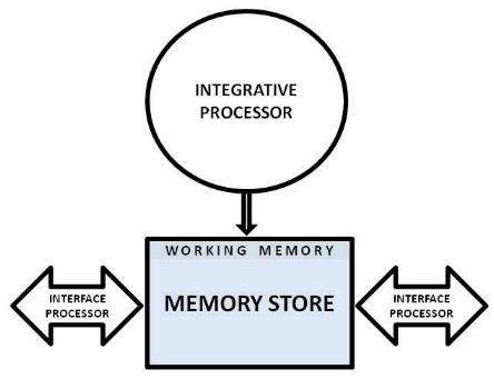 describes the generic processor in the The Mogul Framework